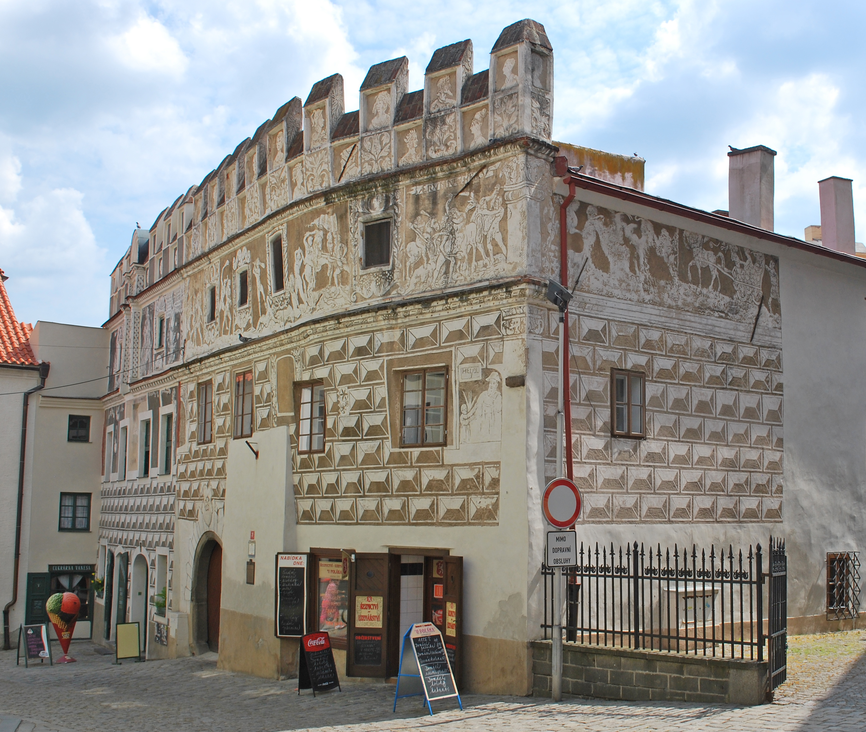 Prachatice